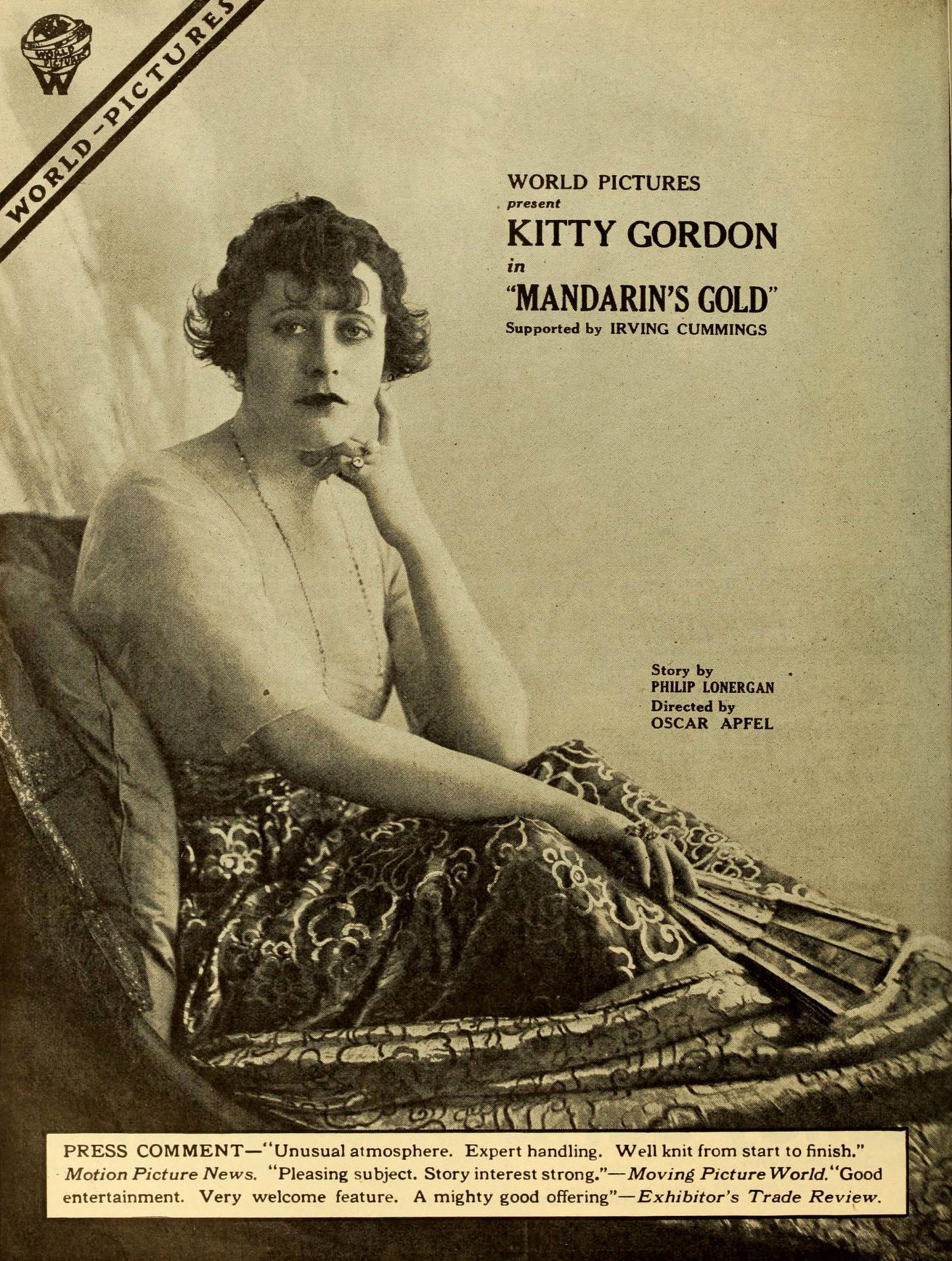 Advertisement in Moving Picture World for the American film Mandarin's Gold (1919) with Kitty Gordon.